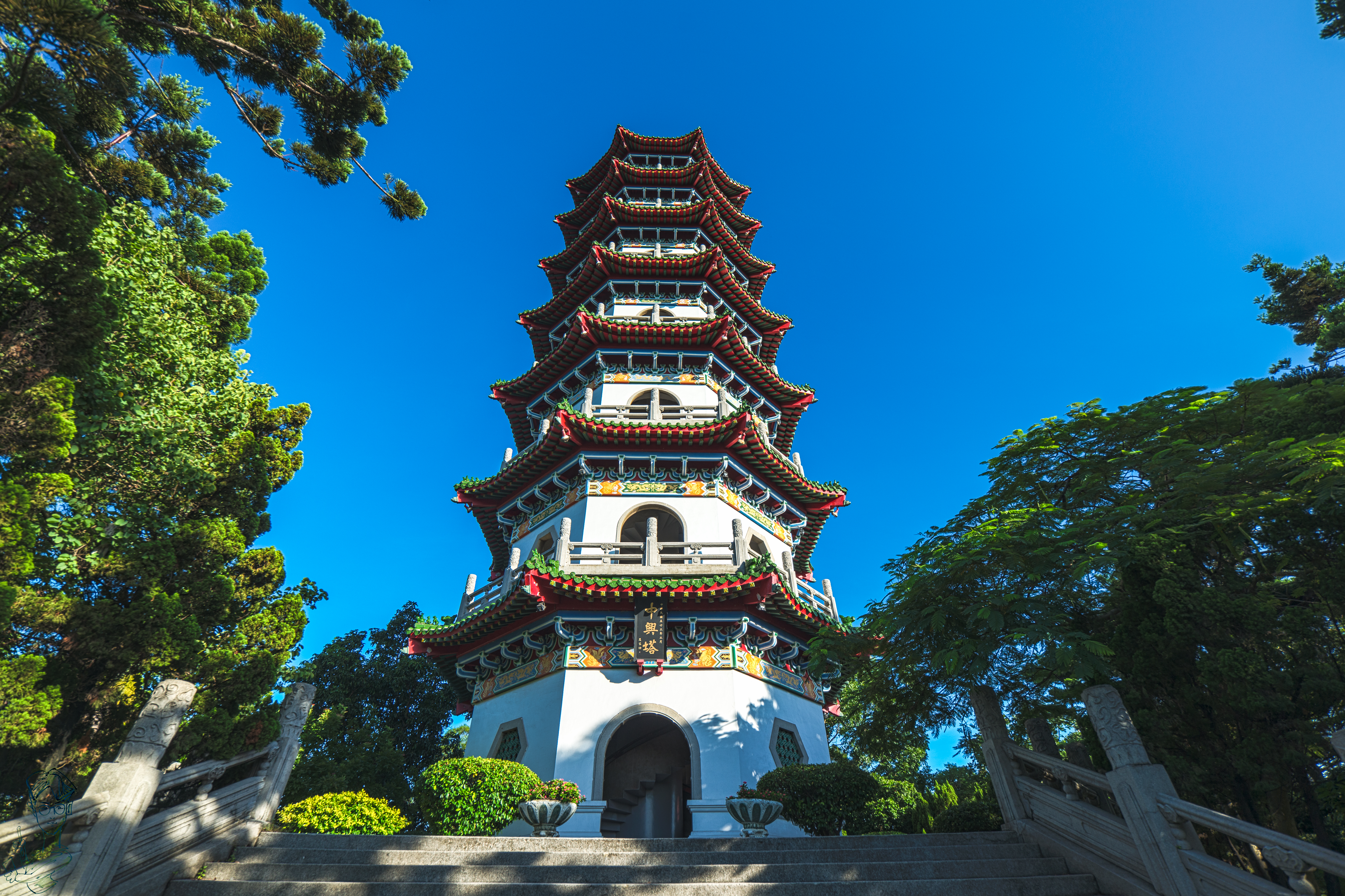 Chung-Hsing Pagoda in Kaohsiung City, Taiwan